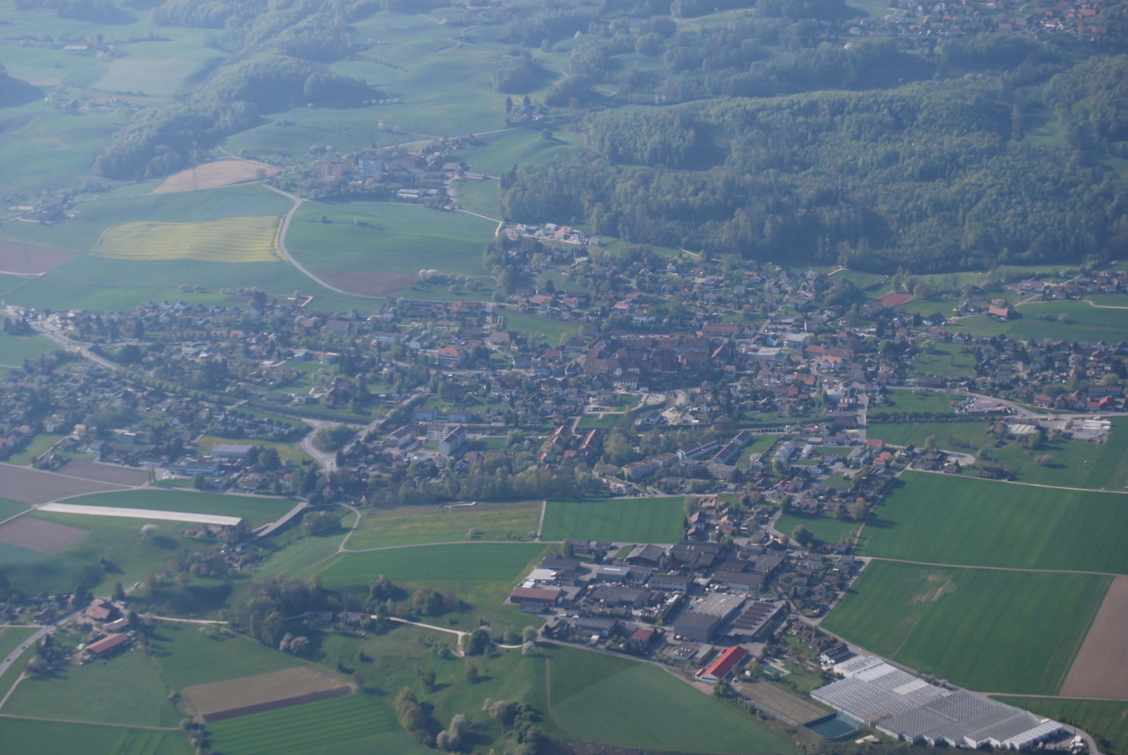 Wiedlisbach, canton of Bern, SwitzerlandEsperanto: Wiedlisbach, Kantono Berno, Svislando